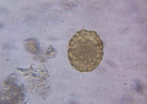 Saline wet mount of feces showing fertilized egg of Ascaris lumbricoides